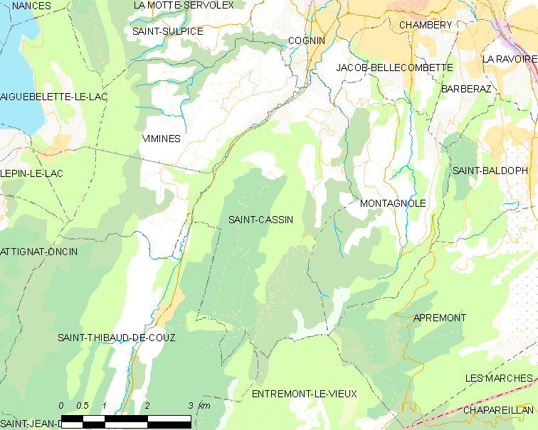 Map of French municipality